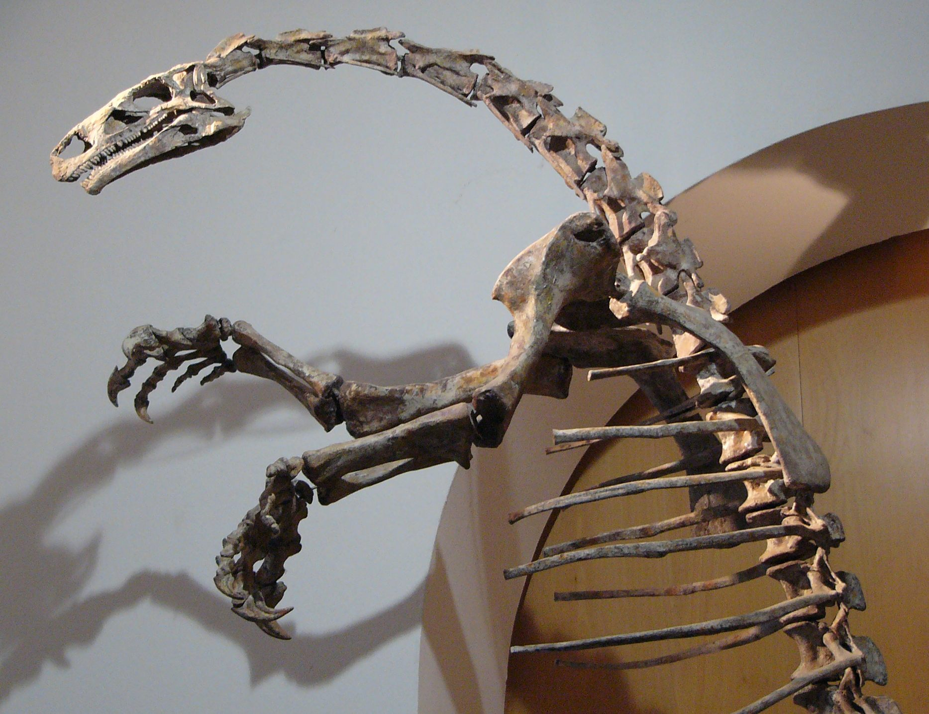 Plateosaurus engelhardti skeleton, from the "Ottoneum Museum", the Museum for Natural Science in Kassel, Germany. Own photography, taken on 04.01.2007.